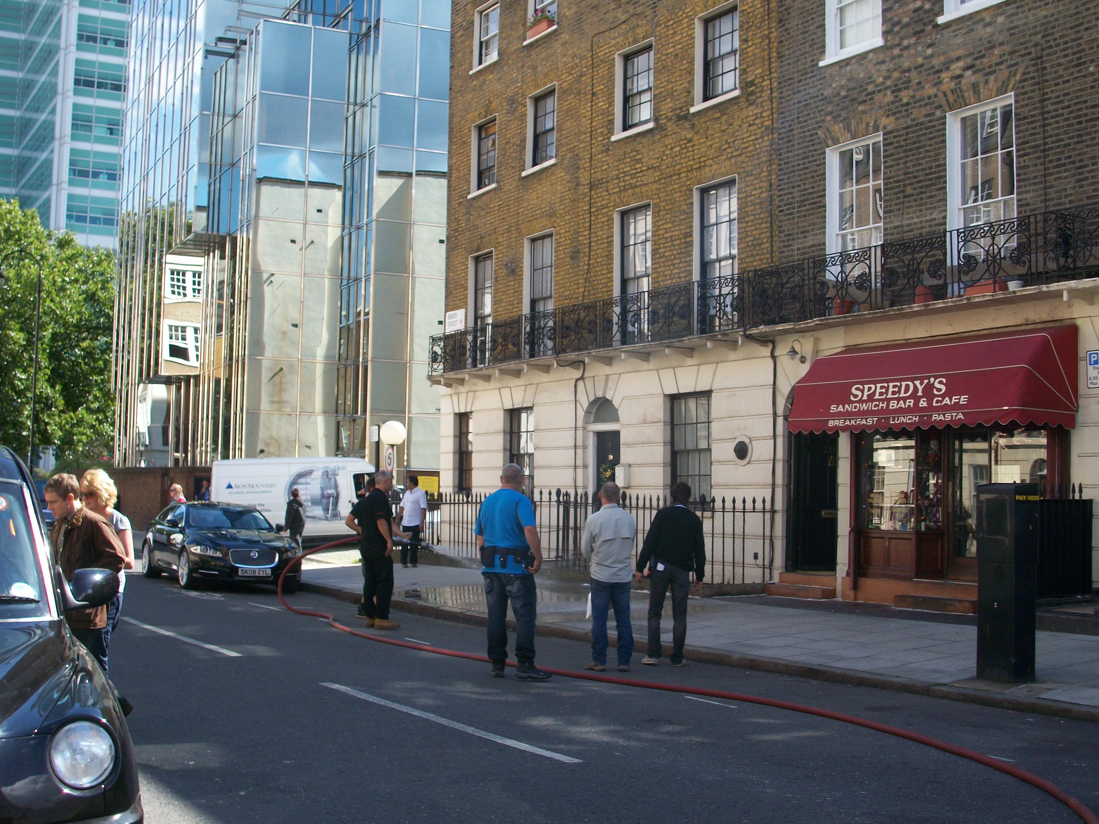 Production of the BBC television series Sherlock at North Gower Street, London